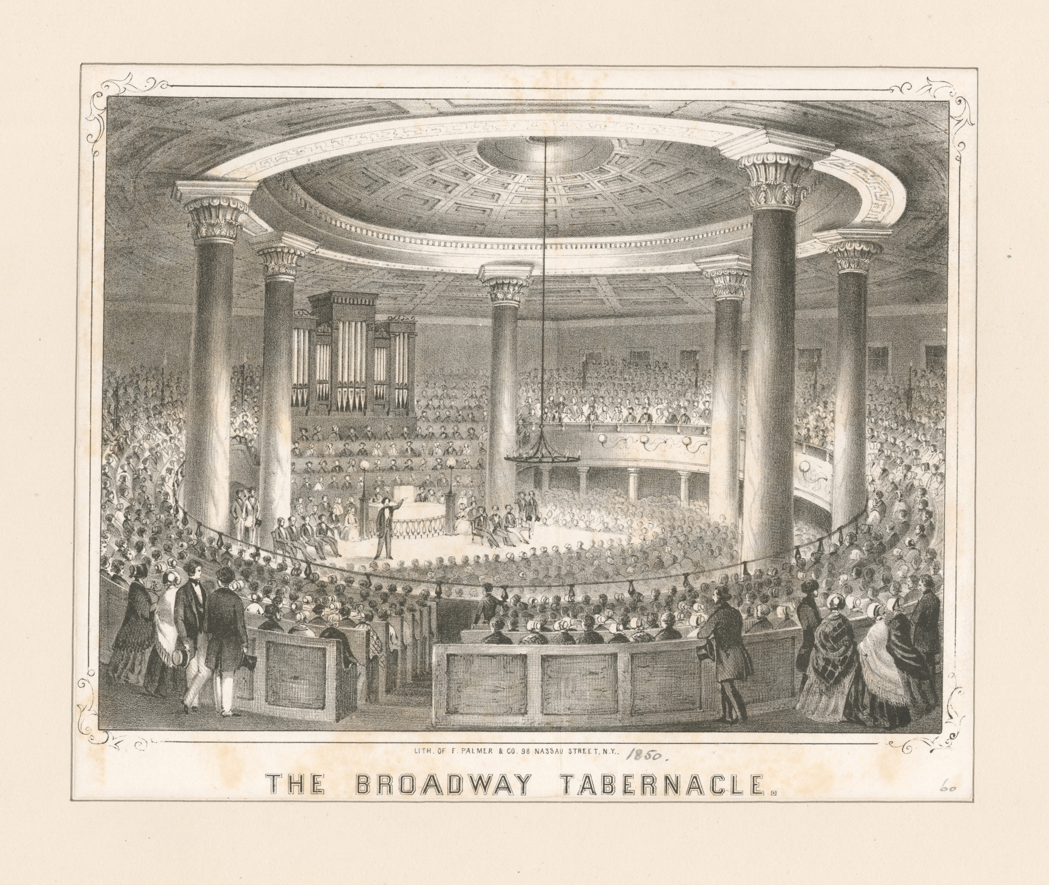 EM11603 Statement of responsibility : F. Palmer & Co.